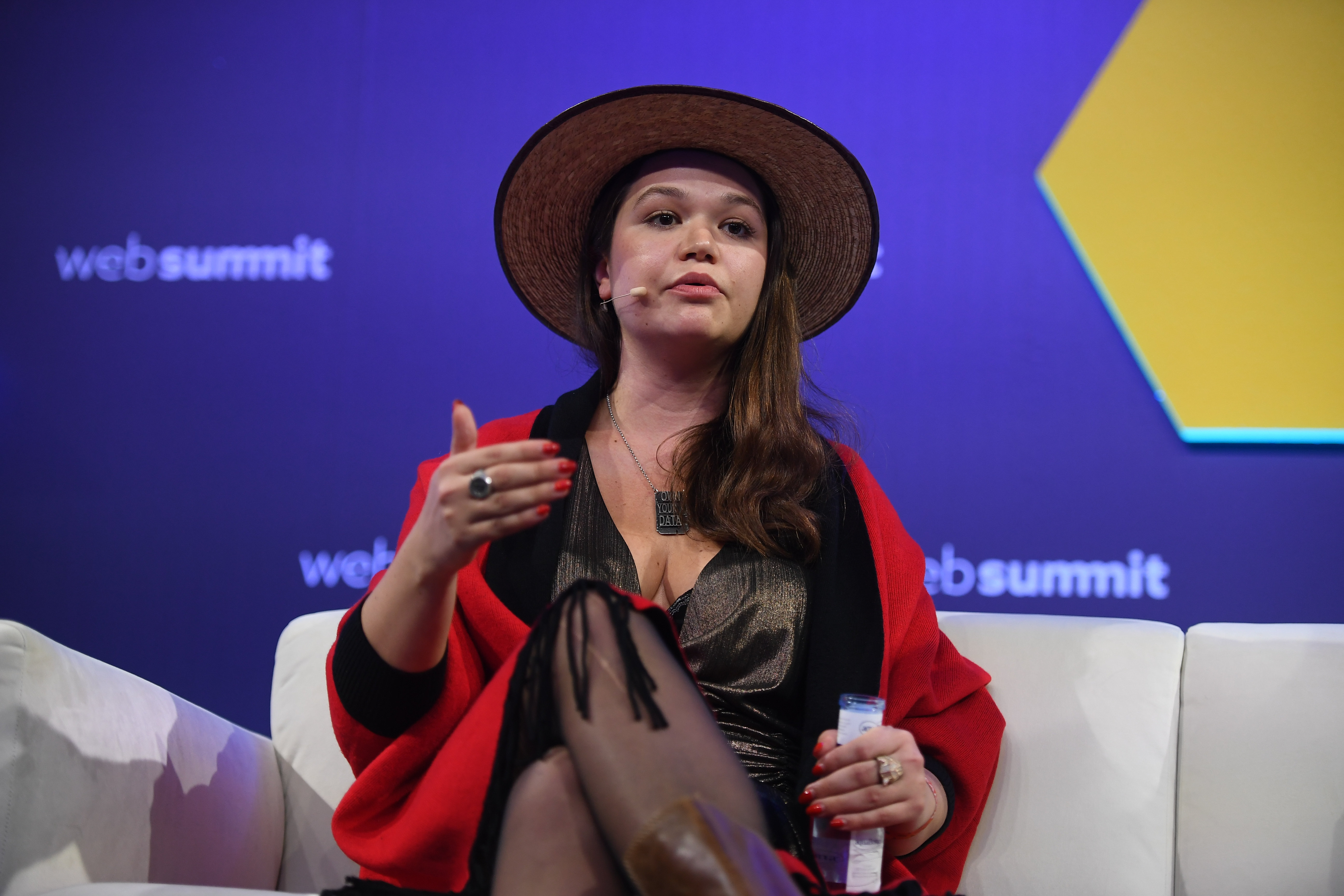 6 November 2019; Brittany Kaiser, Co-founder, Own Your Data Foundation, on the ContentMakers stage during day two of Web Summit 2019 at the Altice Arena in Lisbon, Portugal. Photo by Sam Barnes/Web Summit via Sportsfile